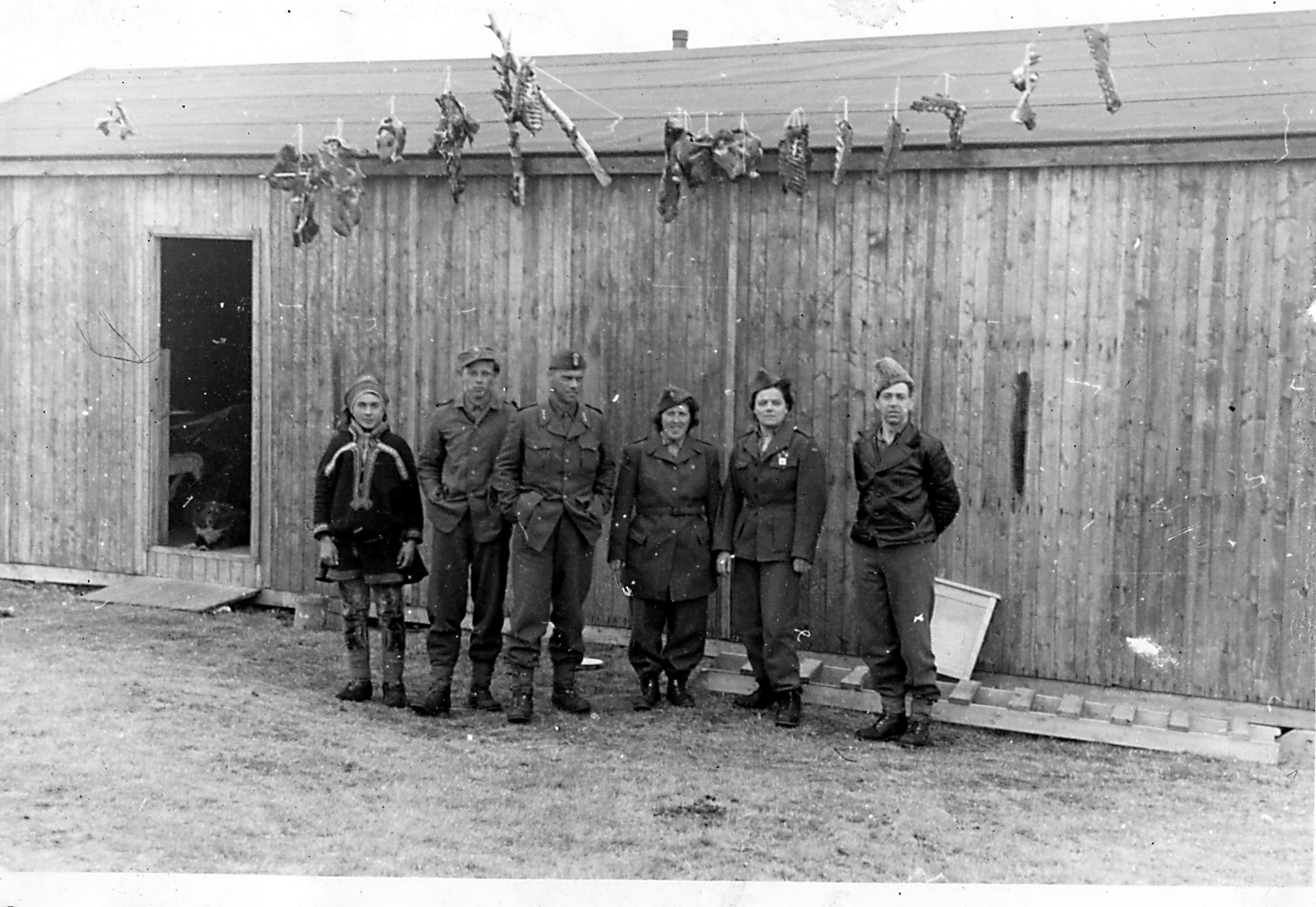 Photo from National Archives of Norway's Flickr-Album "Sykepleier Marie Lysnes' album" ("Album of nurse Marie Lysnes", all images marked with "No known copyright restrictions")